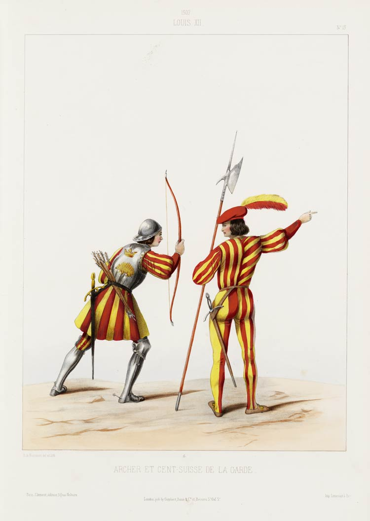 Archer and Cent-Suisse of the guard, ca. 1507 (Louis XII)